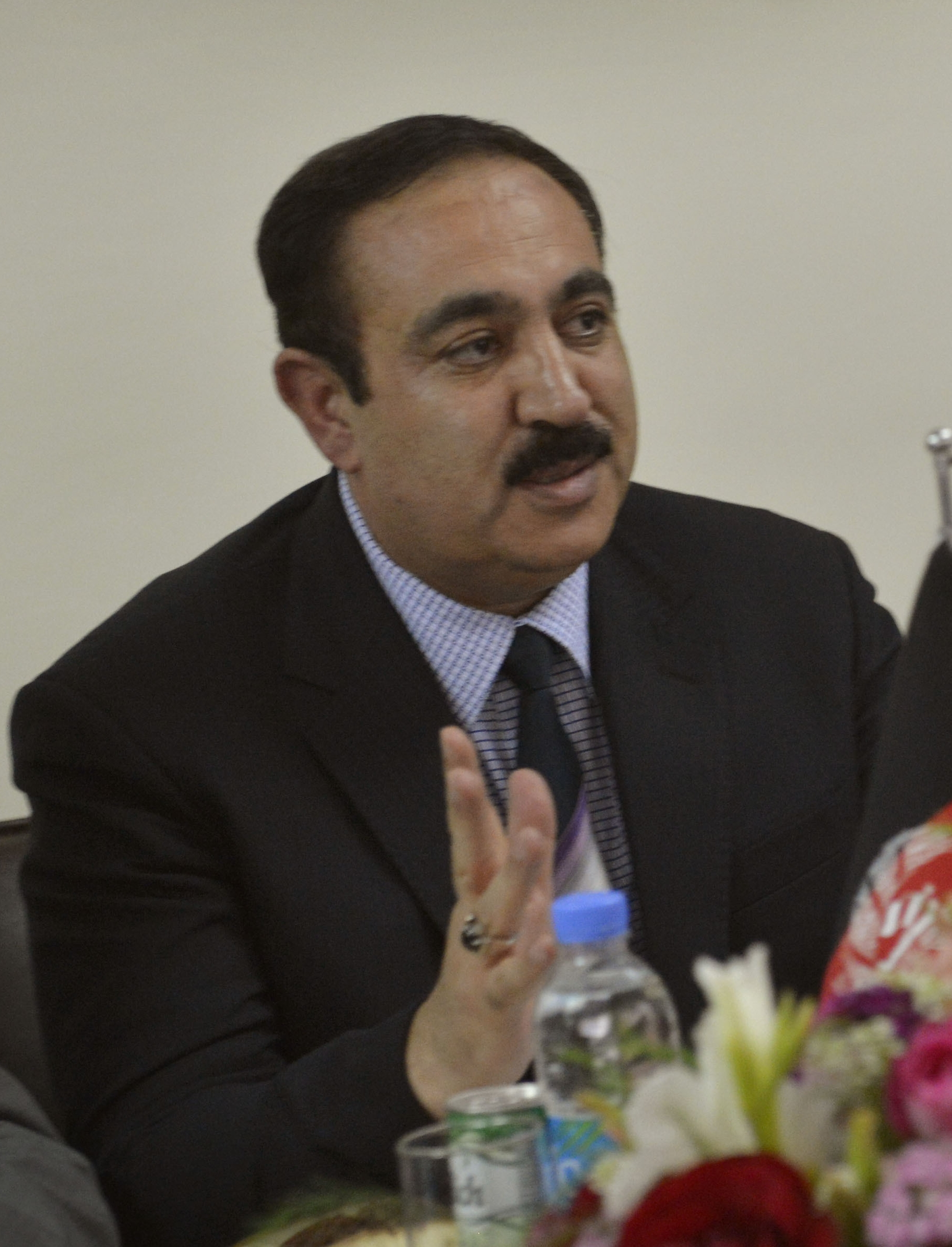 Cropped photograph of Ghulam Mujtaba Patang; then Interior Minister for Afghanistan.